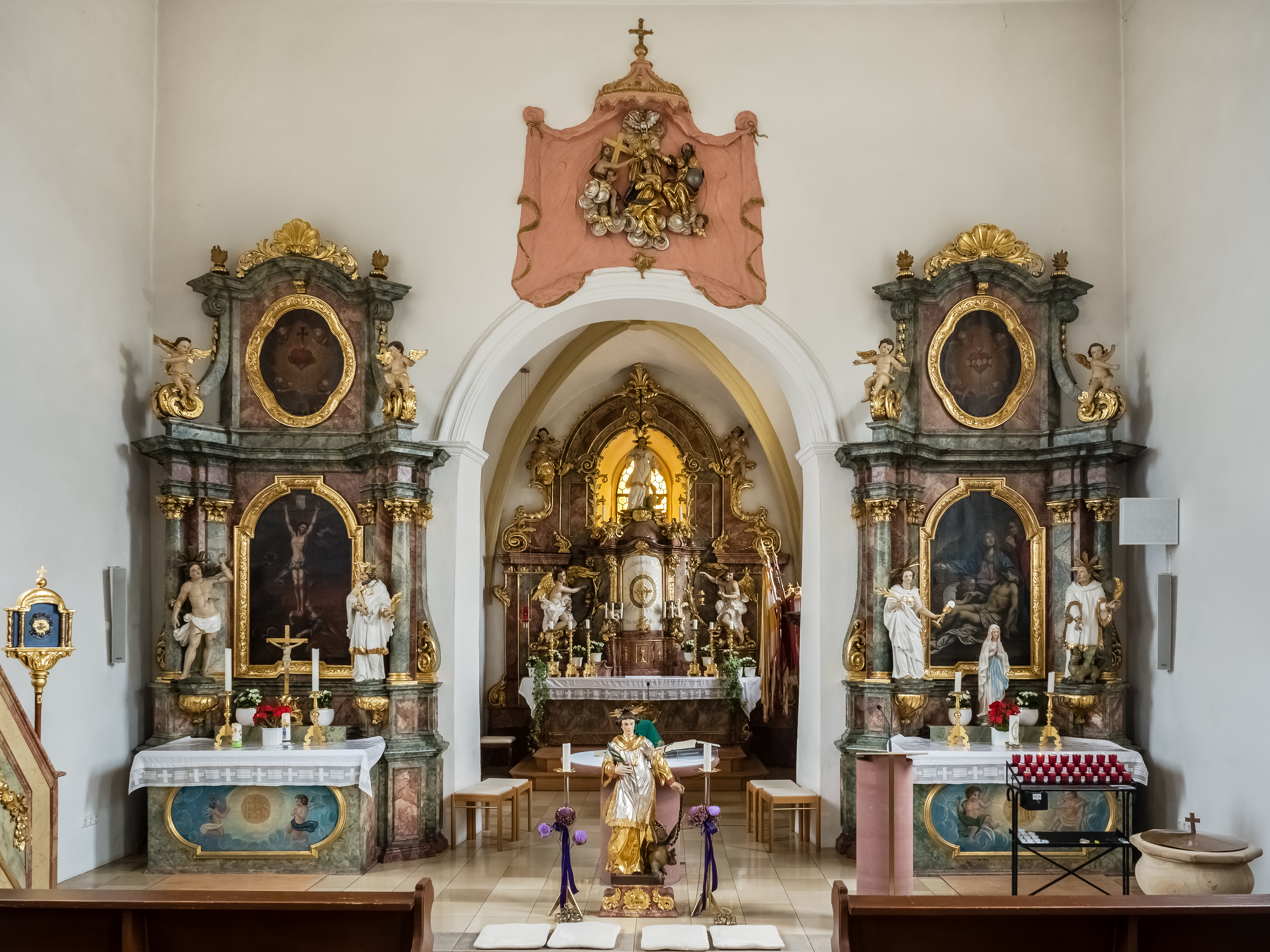 Chancel of the Catholic Church of St. Cyriac (Staffelbach)